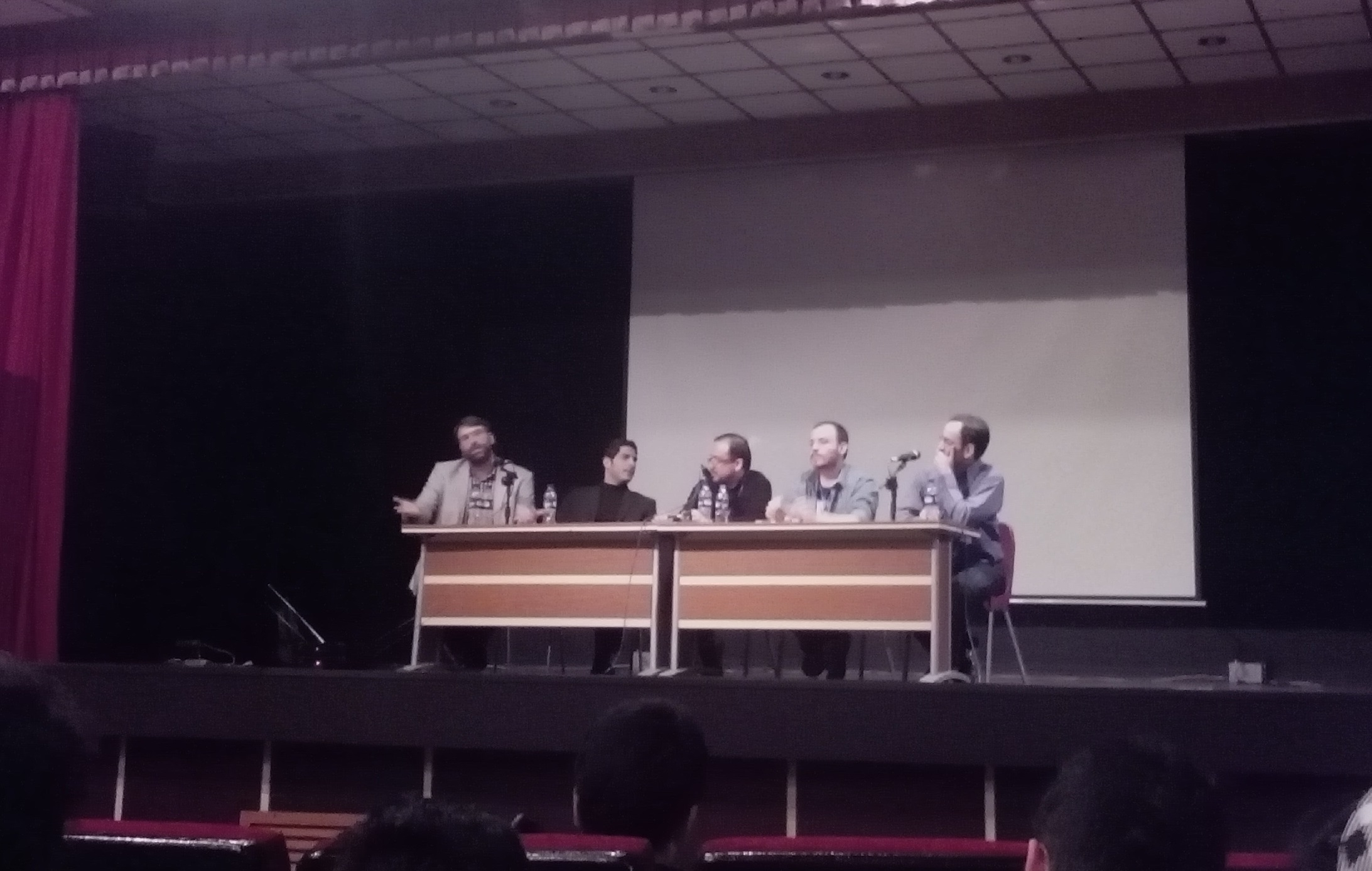 First Tehran India Game Festival - Day 3